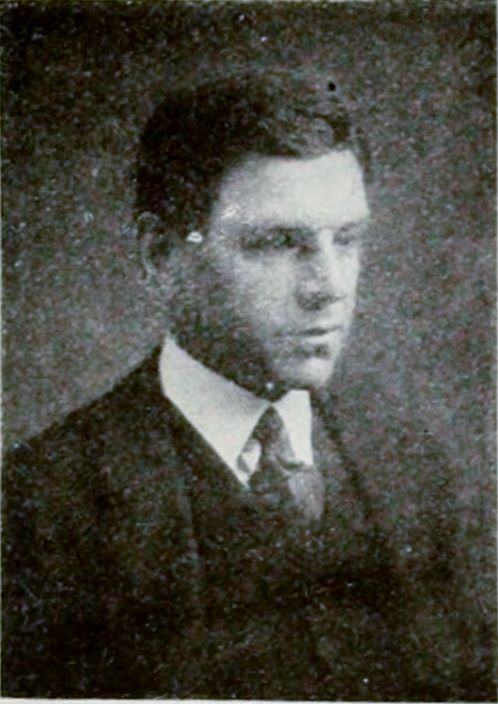 CHARLES HOPKINSON. BornCambridge, Mass. Pupil of ArtStudents League of New York. Member: Guild of Boston Artists; BostonWater Color Club; Copley Society of Boston. Awards: Bronze medal, Pan-American Exposition, and St.Louis Exposition; second prize Worcester, Mass., Museum; Beck gold medal, Pennsylvania Academy of the Fine Arts, Philadelphia; silver medal Panama-Pacific Exposition Image from page 63 of "Exhibition of war portraits : signing of the Peace treaty, 1919, and portraits of distinguished leaders of America and of the allied nations painted by eminent American artists for presentation to the National portrait gallery" (192 Identifier: exhibitionofwarp00nati Title: Exhibition of war portraits : signing of the Peace treaty, 1919, and portraits of distinguished leaders of America and of the allied nations painted by eminent American artists for presentation to the National portrait gallery Year: 1921 (1920s) Authors: National Art Committee Metropolitan Museum of Art (New York, N.Y.) Levy, Florence Nightingale, 1870- Subjects: Portraits World War, 1914-1918 Publisher: New York : National Art Committee